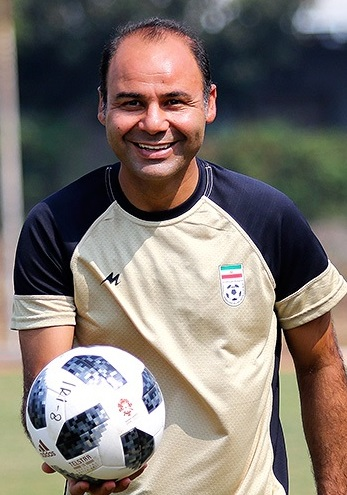 Sohrab Bakhtiarizadeh